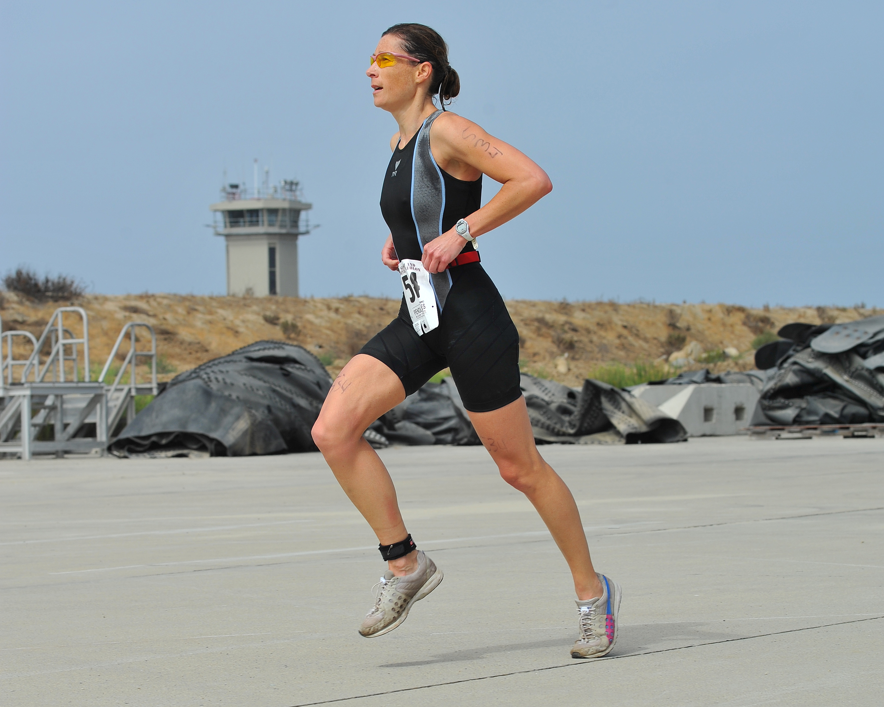 A woman wearing a speedsuit while running in a Assault Craft Unit 5 triathlon on Marine Corps Base Camp Pendleton.